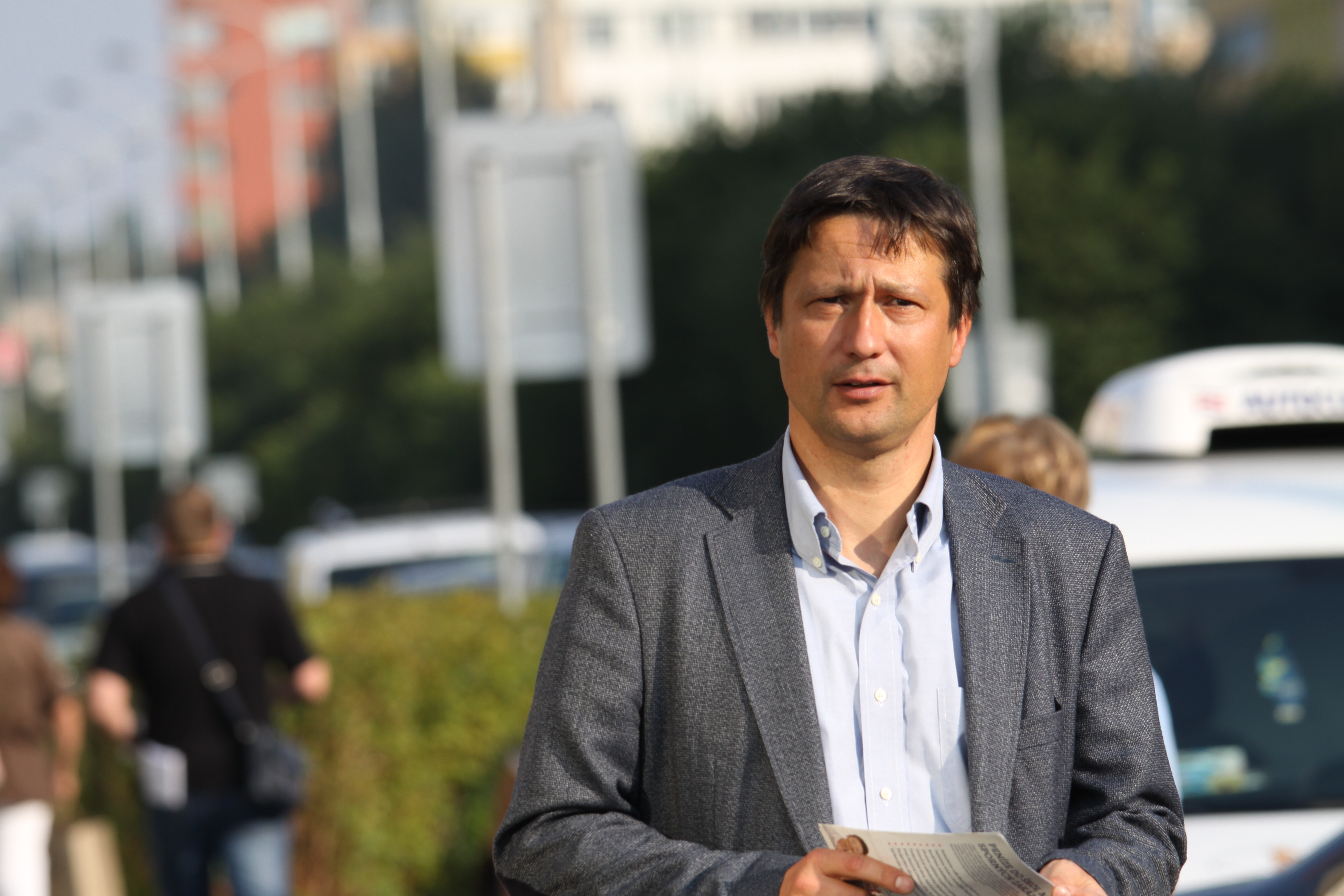 Petr Štěpánek, politician from Green Party, photographed in Prague, Czech Republic Personality rights warning Although this work is freely licensed or in the public domain, the person(s) shown may have rights that legally restrict certain re-uses unless those depicted consent to such uses. In these cases, a model release or other evidence of consent could protect you from infringement claims.